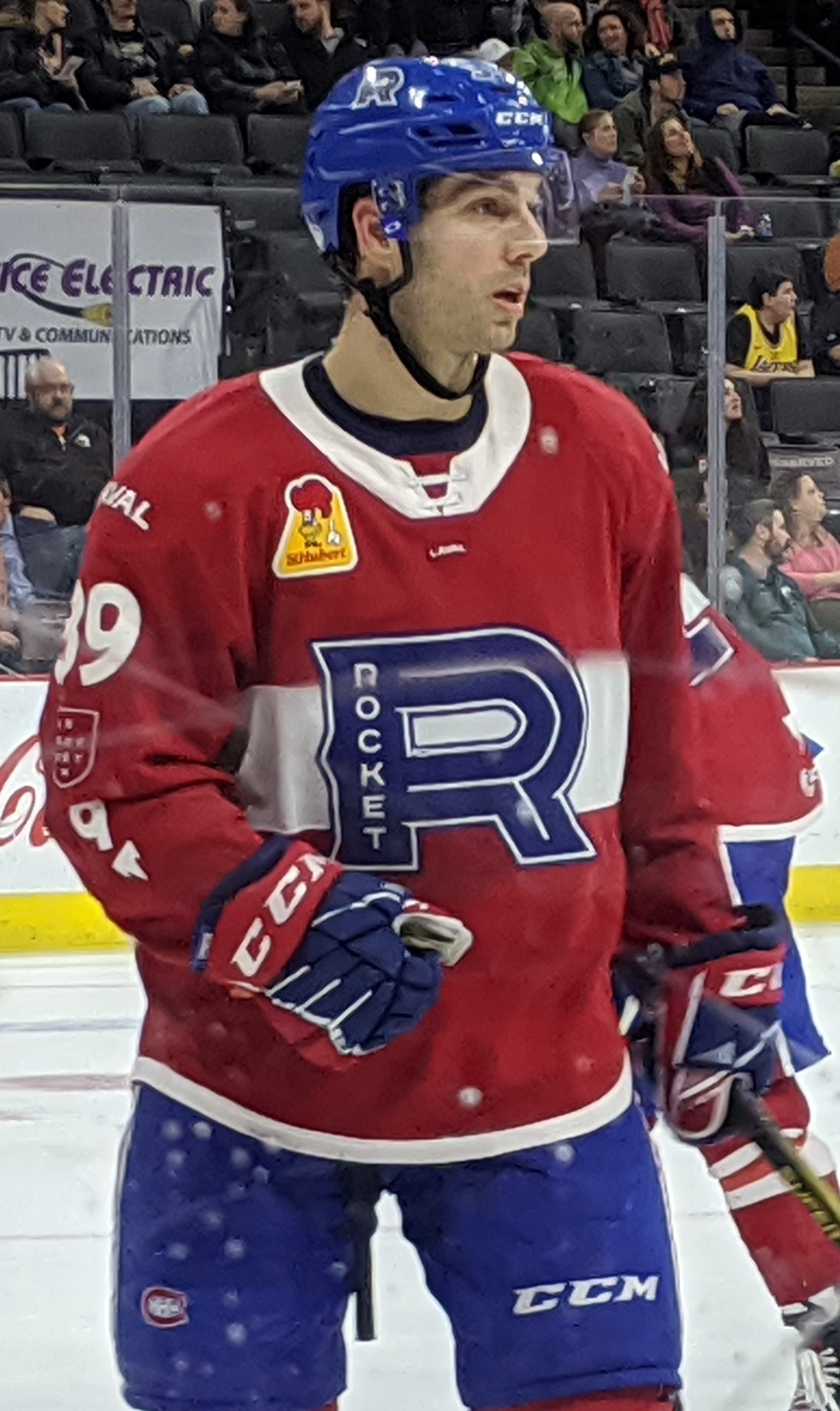 Kevin Lynch and other players from the Laval Rocket ice hockey team at the PPL Center in Allentown, Pennsylvania, on January 11, 2020.